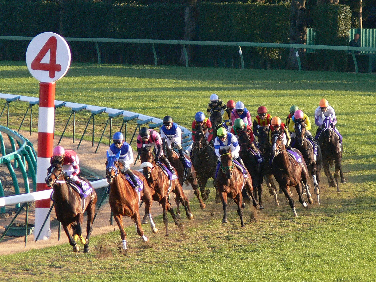 JRA 52nd "Arima-Kinen"(Grand prix). Nakayama race course,Chiba,Japan.